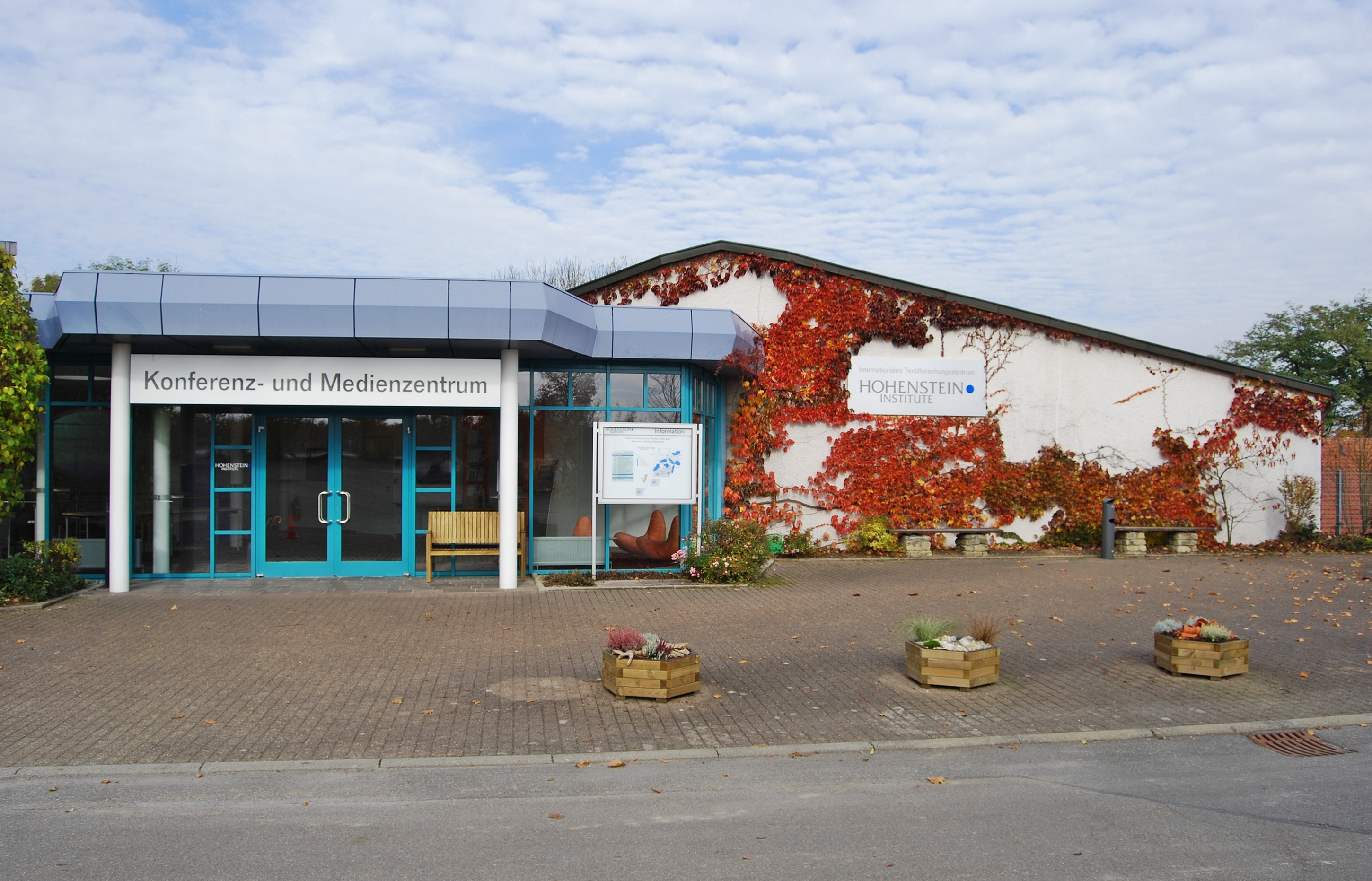 The conference and media centre of Hohenstein institutes, Germany.